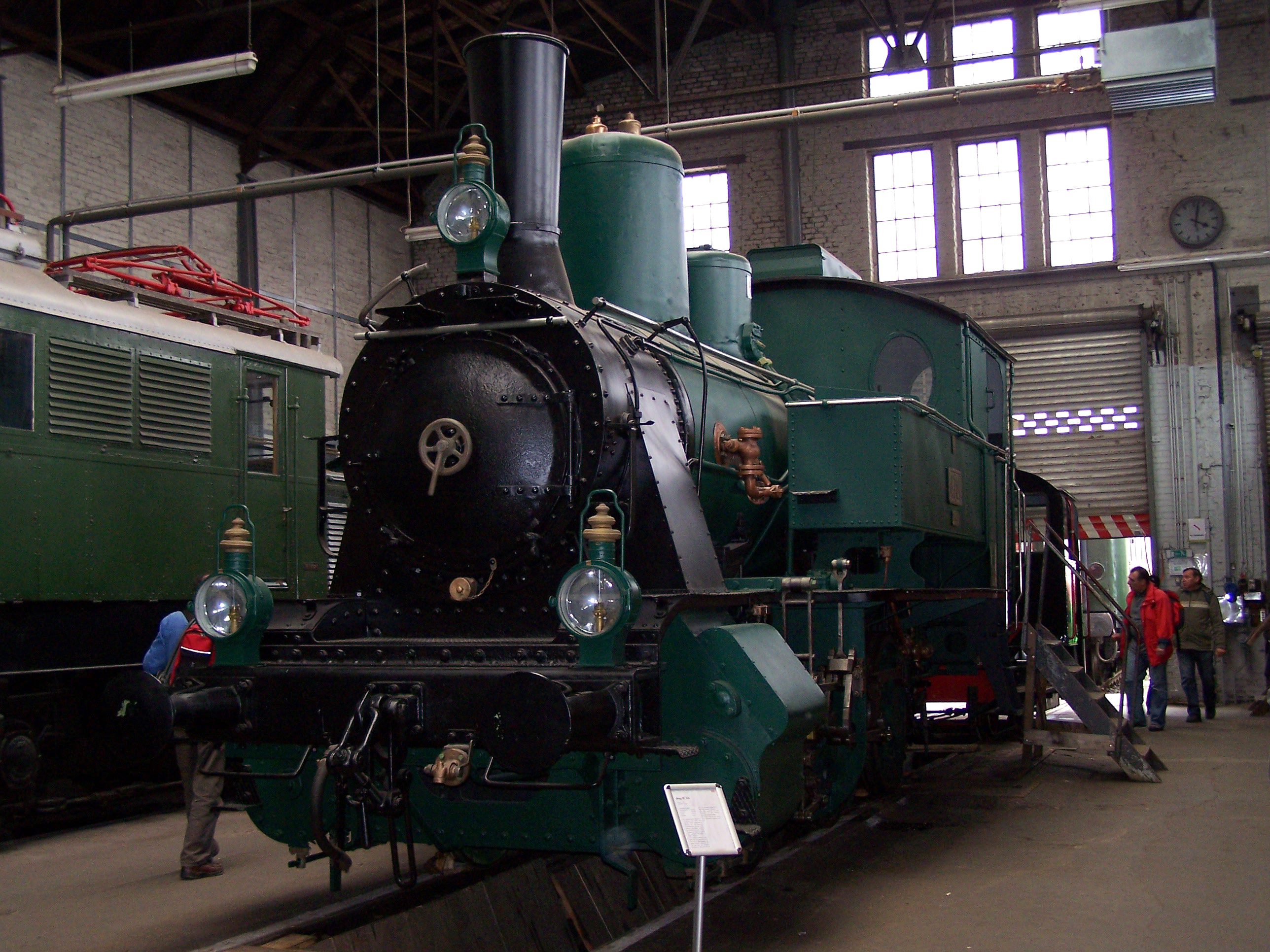 Bavarian R 3/3 steam locomotive in the DB Museum in Koblenz-Lützel, a local branch of the Transport Museum in Nuremberg, April 2010